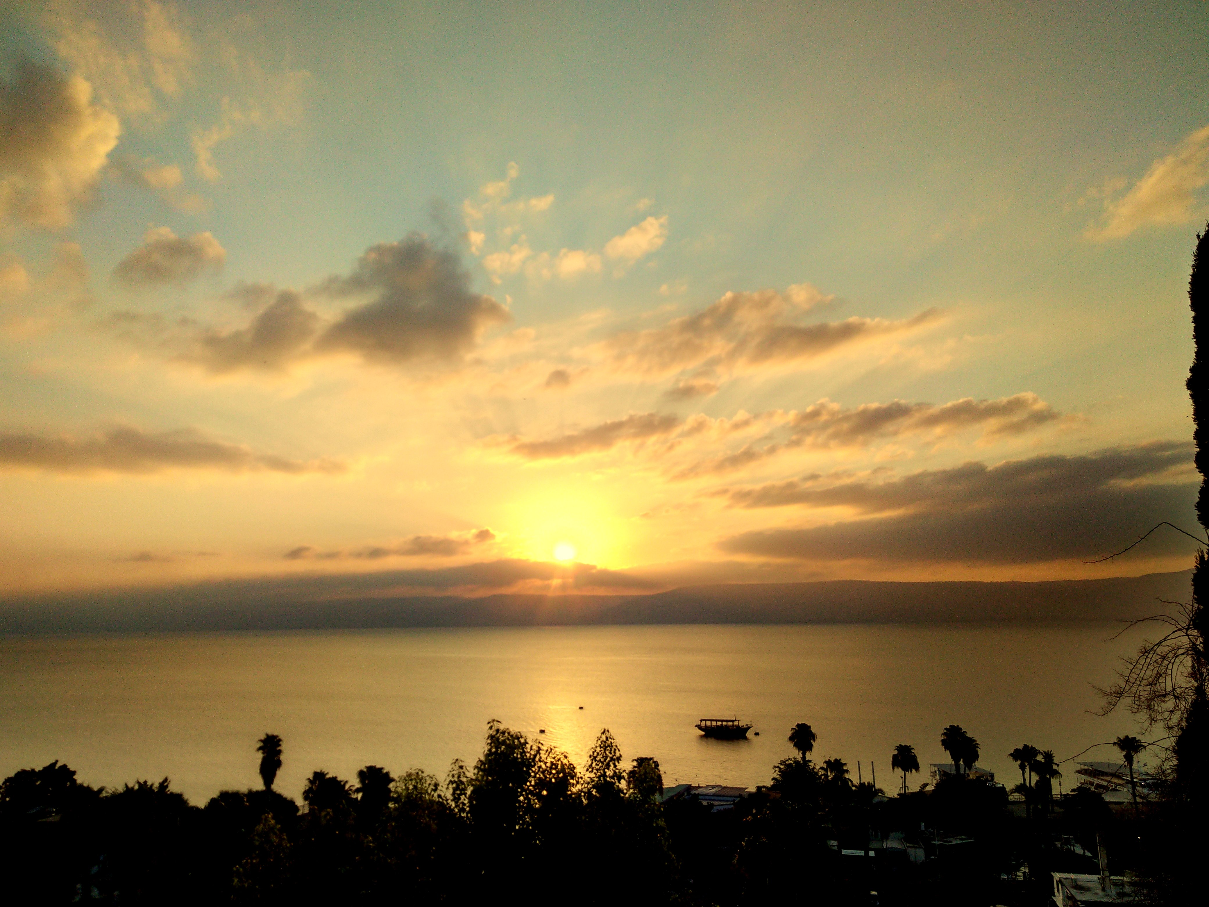 Sunrise over the Sea of Galilee from Tiberias. July 28, 2019.